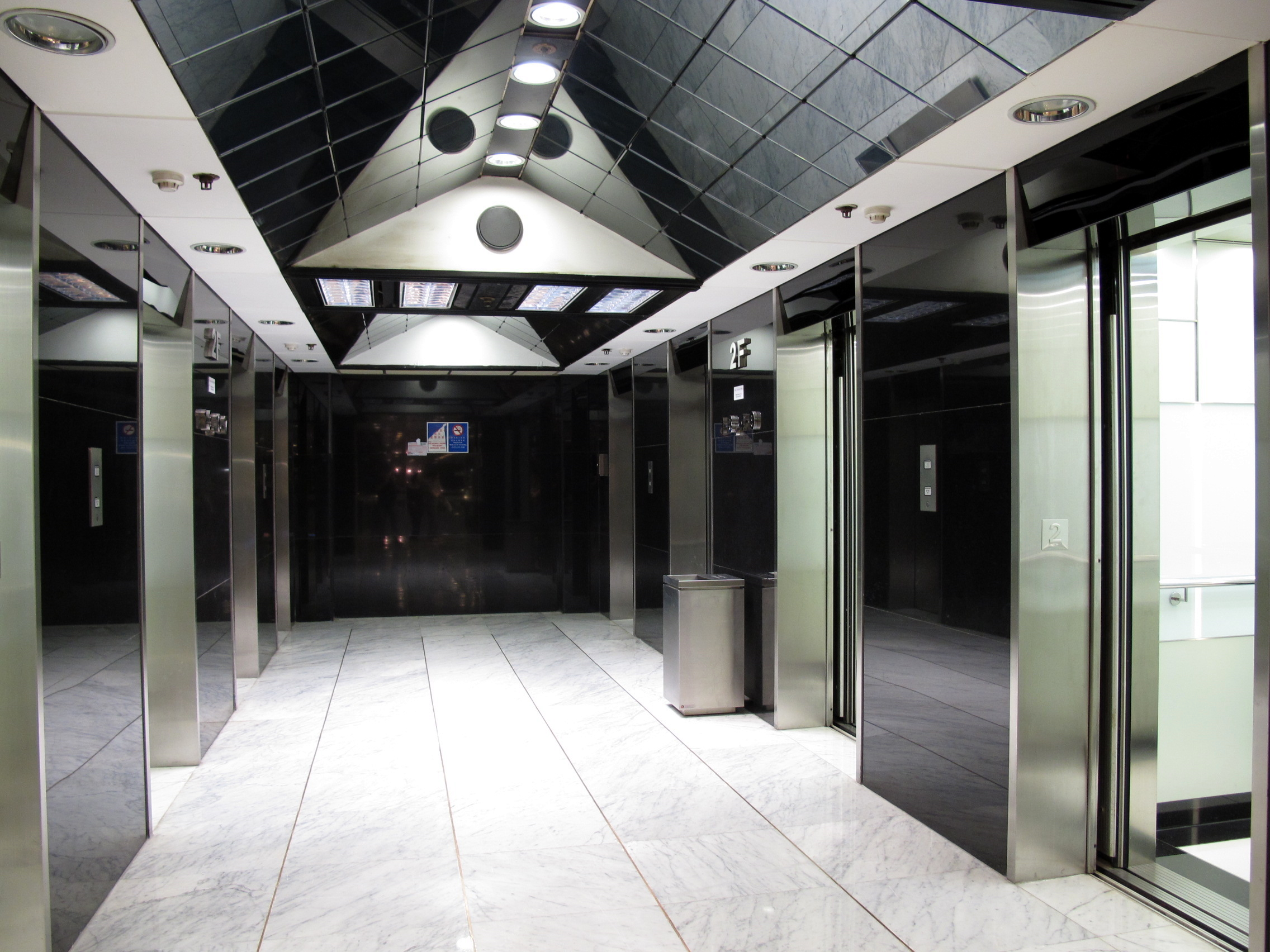 Silvercord Office Lift lobby